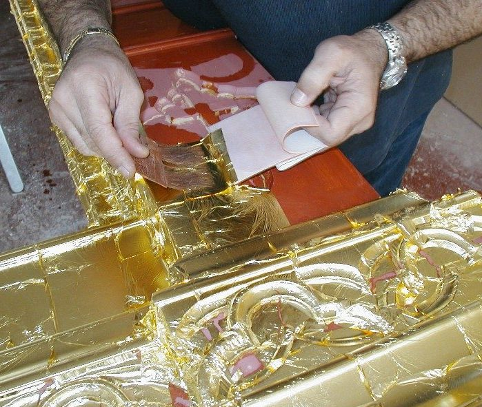 Picture was taken by myself.